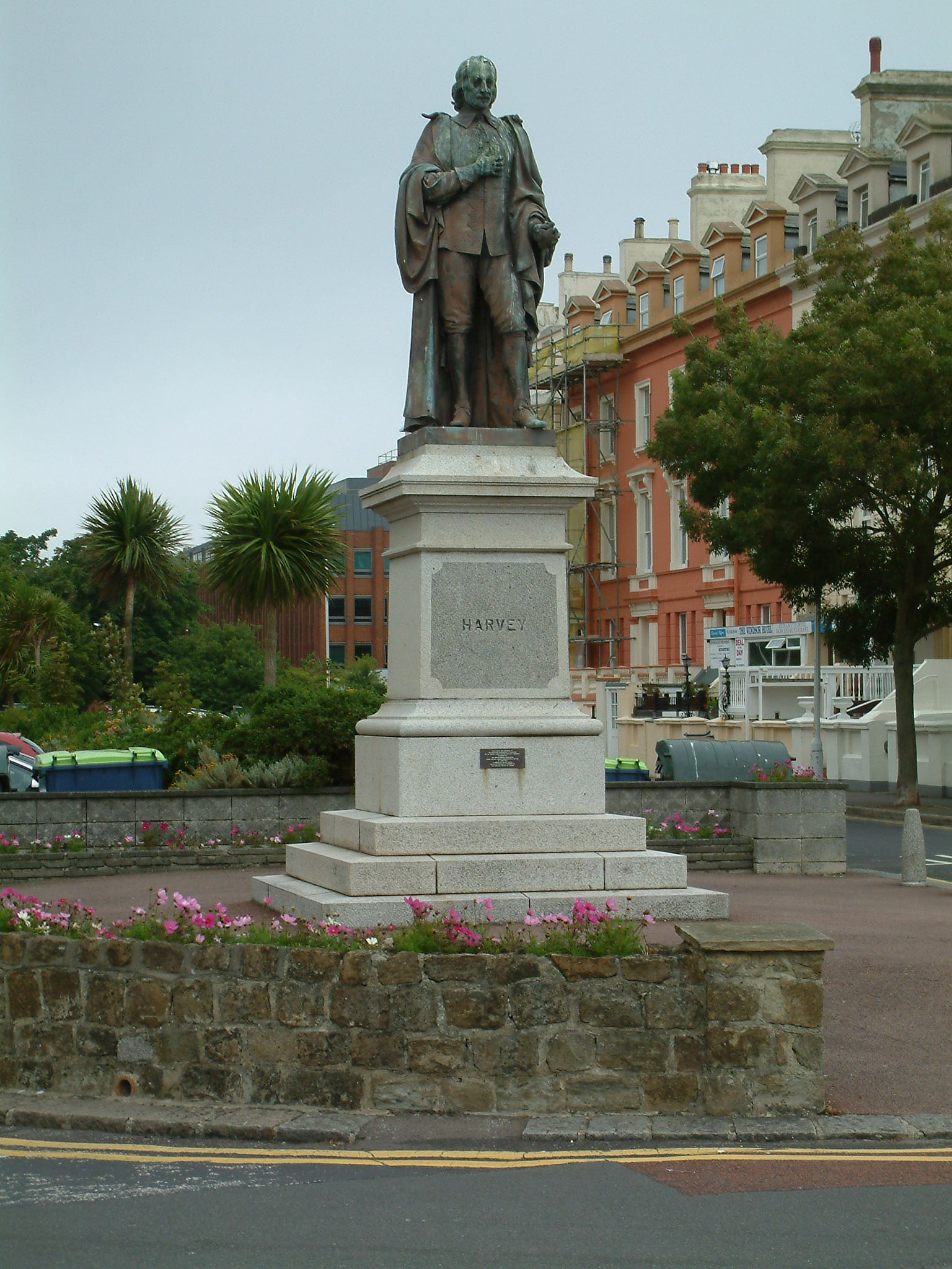 Statue to William Harvey